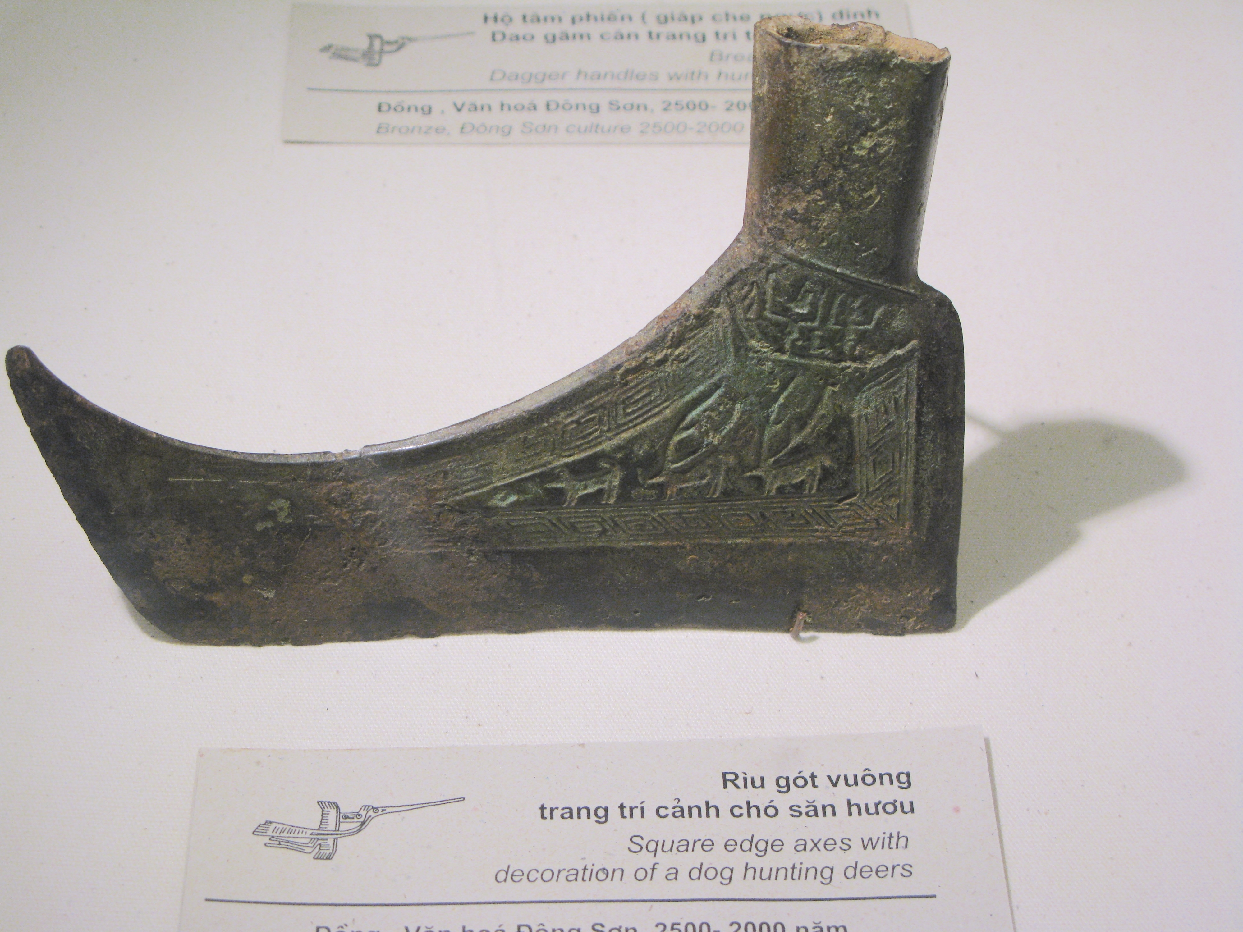 A square-edge axe with decoration of dog hunting deer, Dong Son culture, 500 BCE-0.